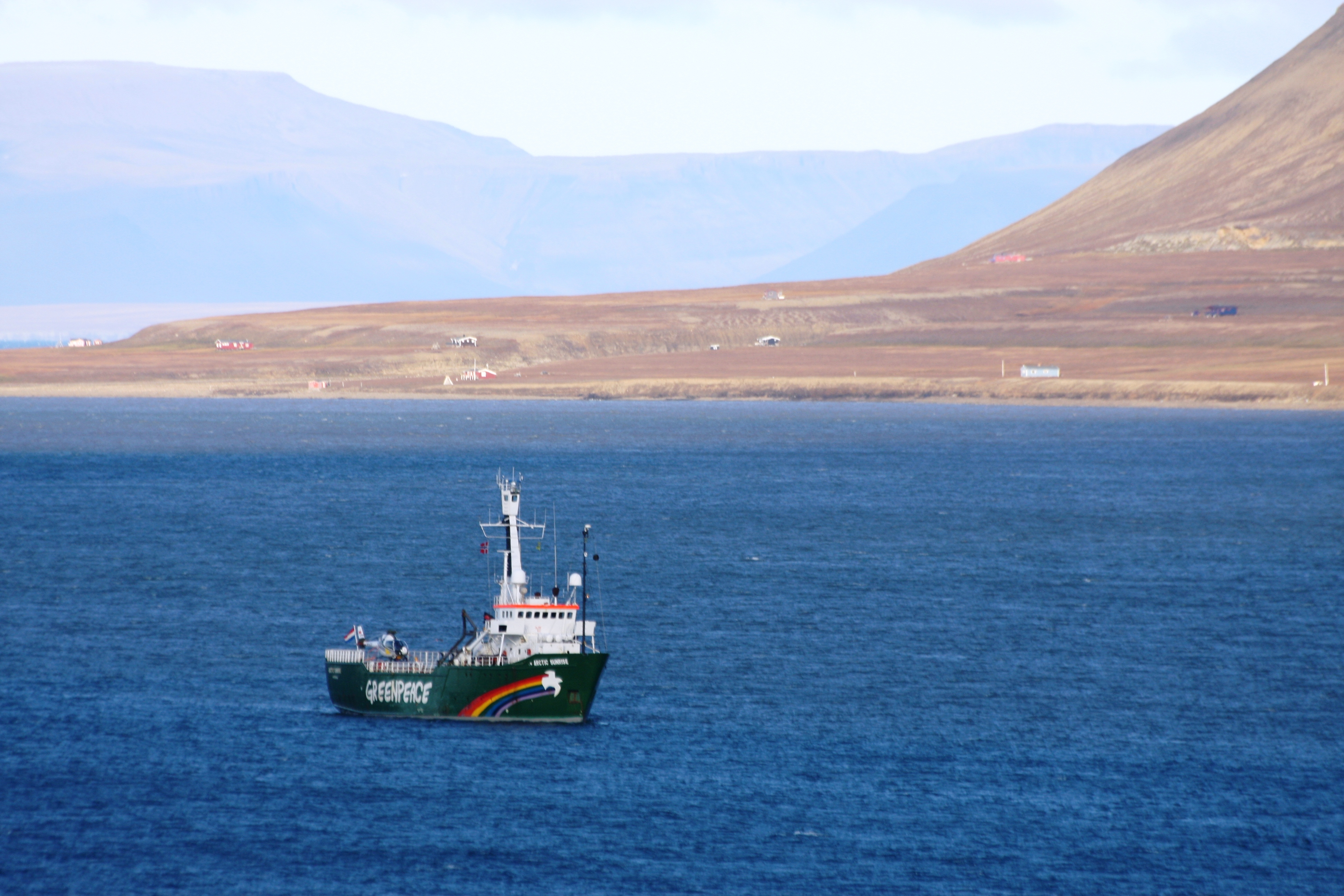 Greenpeace vessel Arctic Sunrise in Adventfjorden, Spitsbergen